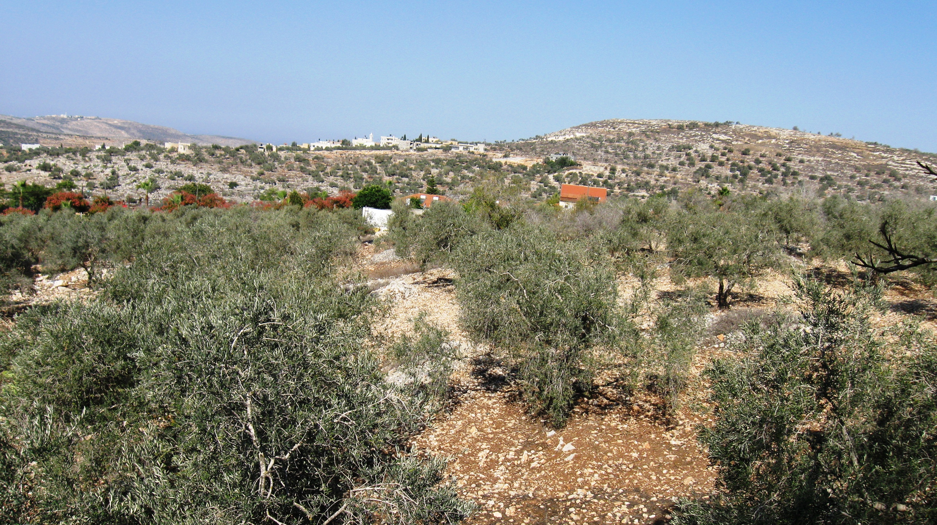 Olives_tree_from_kedumim